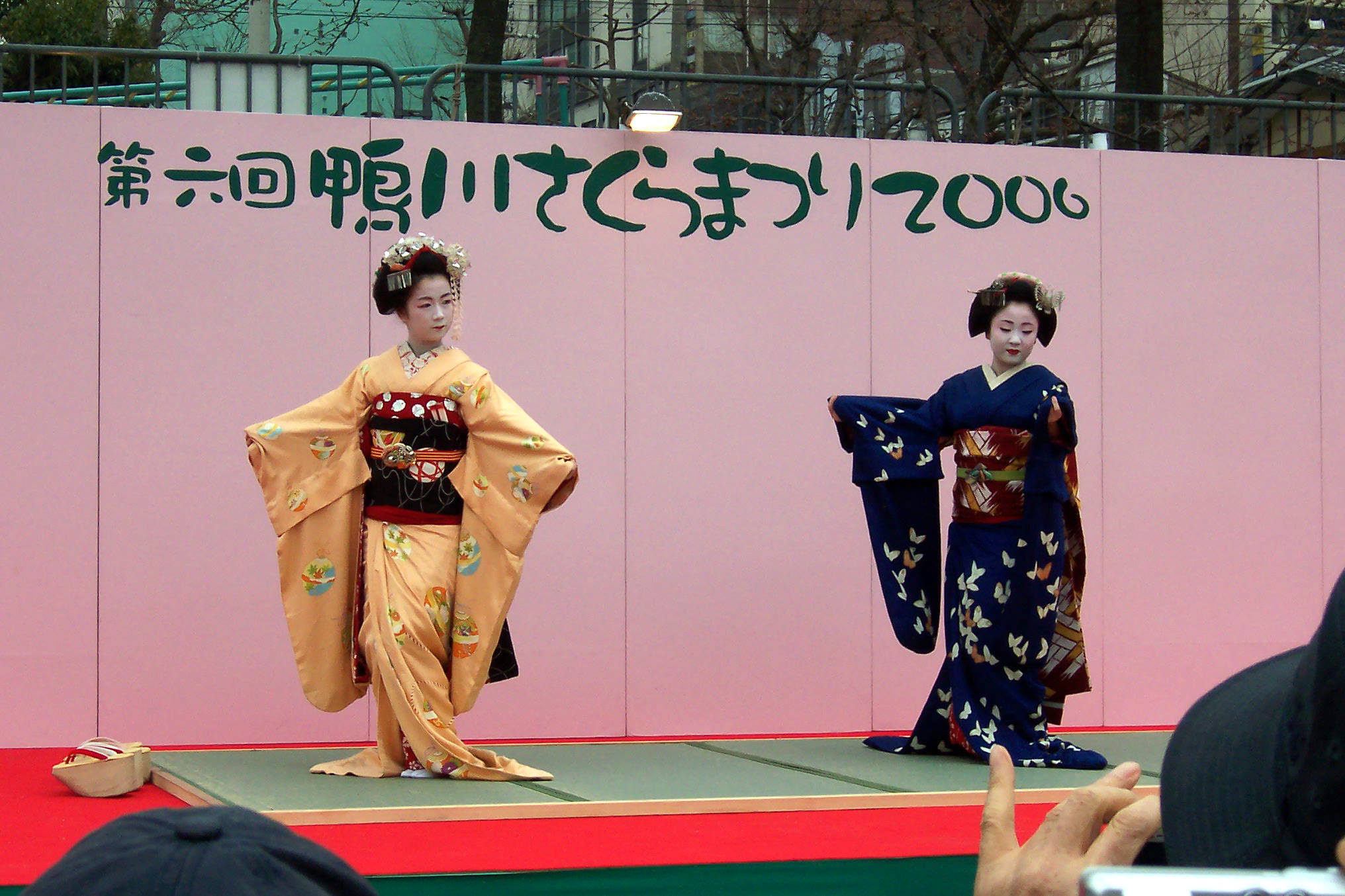 Two maiko, Kanoaki (in yellow) and Sonoka (in blue), performing a dance during the Kamogawa matsuri